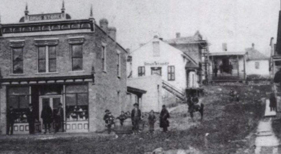 Morrison Drug Store 1890 in Rural Retreat, Virginia